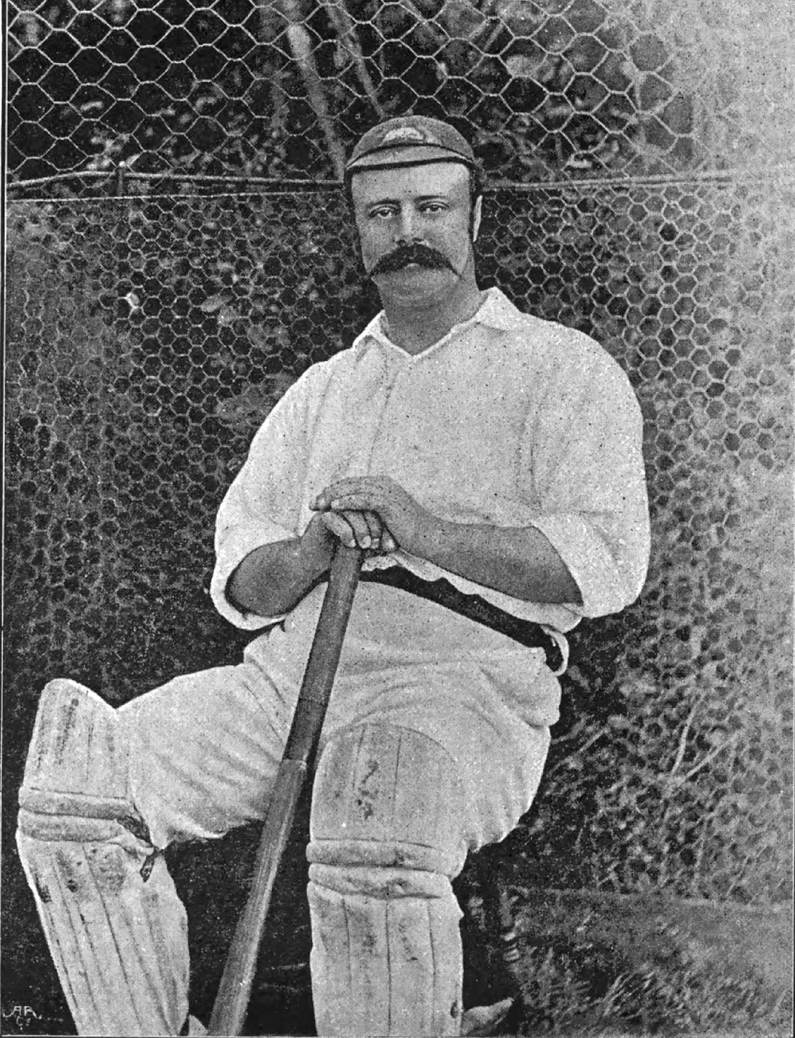 William Lloyd Murdoch